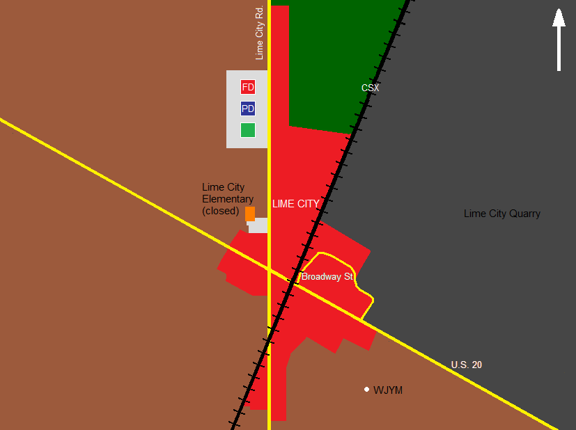 Map depicting the vicinity of Lime City, OH.